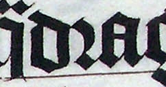 This is a detail of Image:Calligraphy.malmesbury.bible.arp.jpg, containing part of the word "quadraginta".